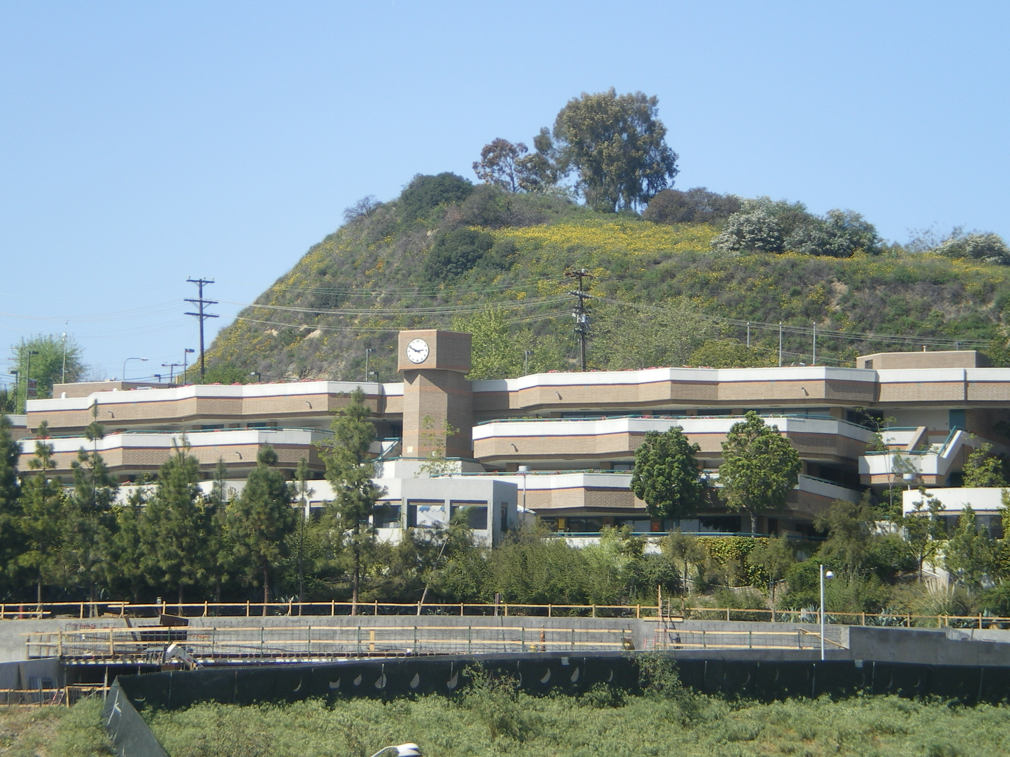 Milken Community High School, on Mulholland Drive at Sepulveda Pass, in Sherman Oaks−Bel Air, Los Angeles.